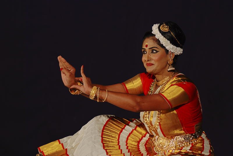 Mohiniyattam classical dance performance by Smt. Sunanda Nair at Kochi, Kerala, India